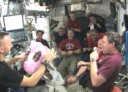 Mission Specialist Randy Bresnik (far left) and the STS-129 and Expedition 21 crews celebrate the birth of his daughter.